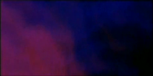 demo effect